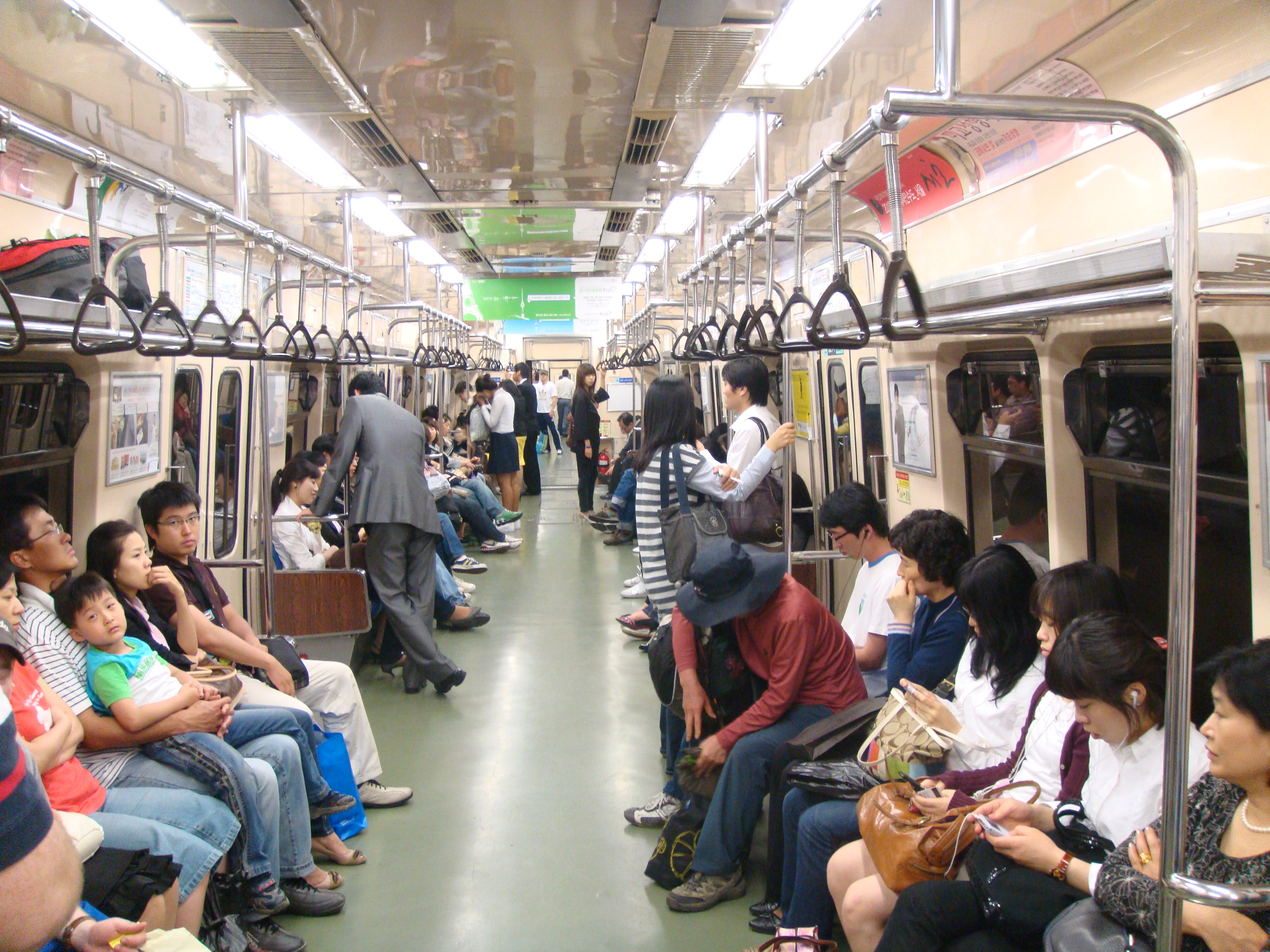 Unrefurbished car interior of the Seoul Metro Class 3000.